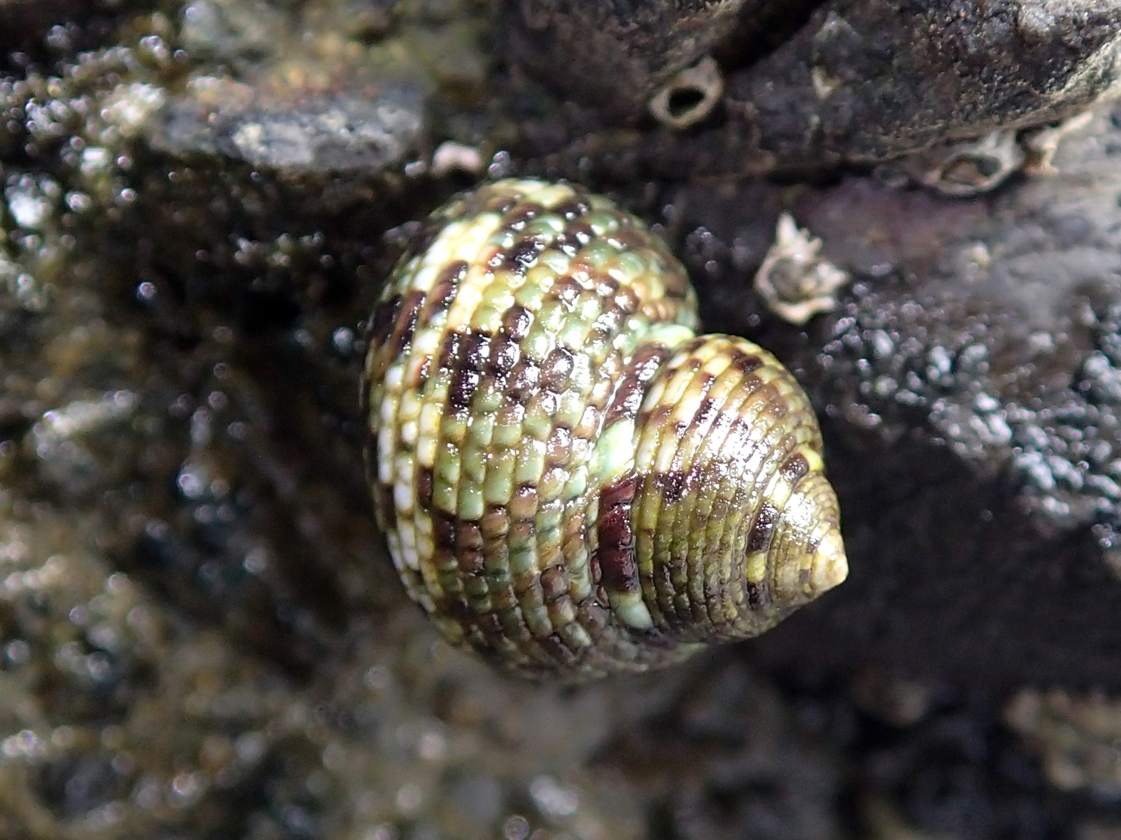 Monodonta sp. (Monodonta australis auct. non Lamarck, 1822) from Chichijima Island, the Ogasawara Islands, Tokyo, Japan.